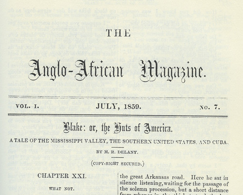 This is a partial scan of the July 1859 issue of the Anglo-African Magazine, in which part of Martin R. Delaney's serialized novel Blake; or the Huts of America was published. The scan was created by the University of Virginia Library for an article published on the Encyclopedia Virginia website.